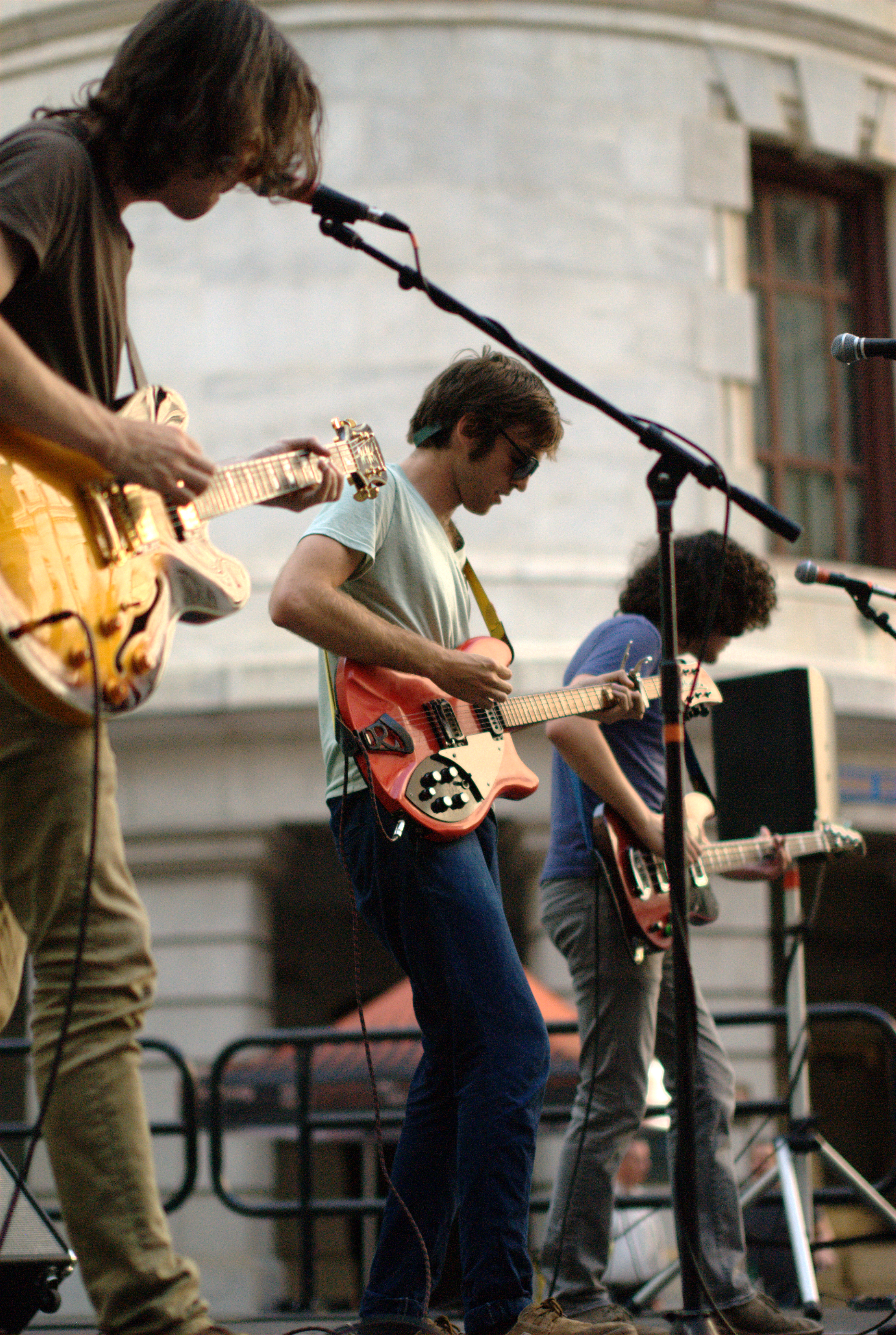 City Hall Presents Cheers Elephant, June 5, 2013, Philadelphia, PA